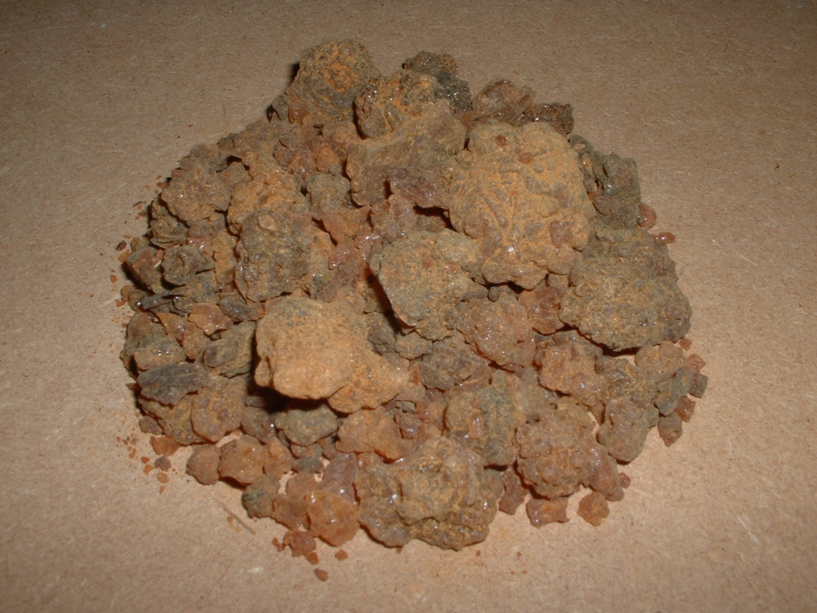 100g of Myrrh resin. This material comes from Dhofar region of Oman.